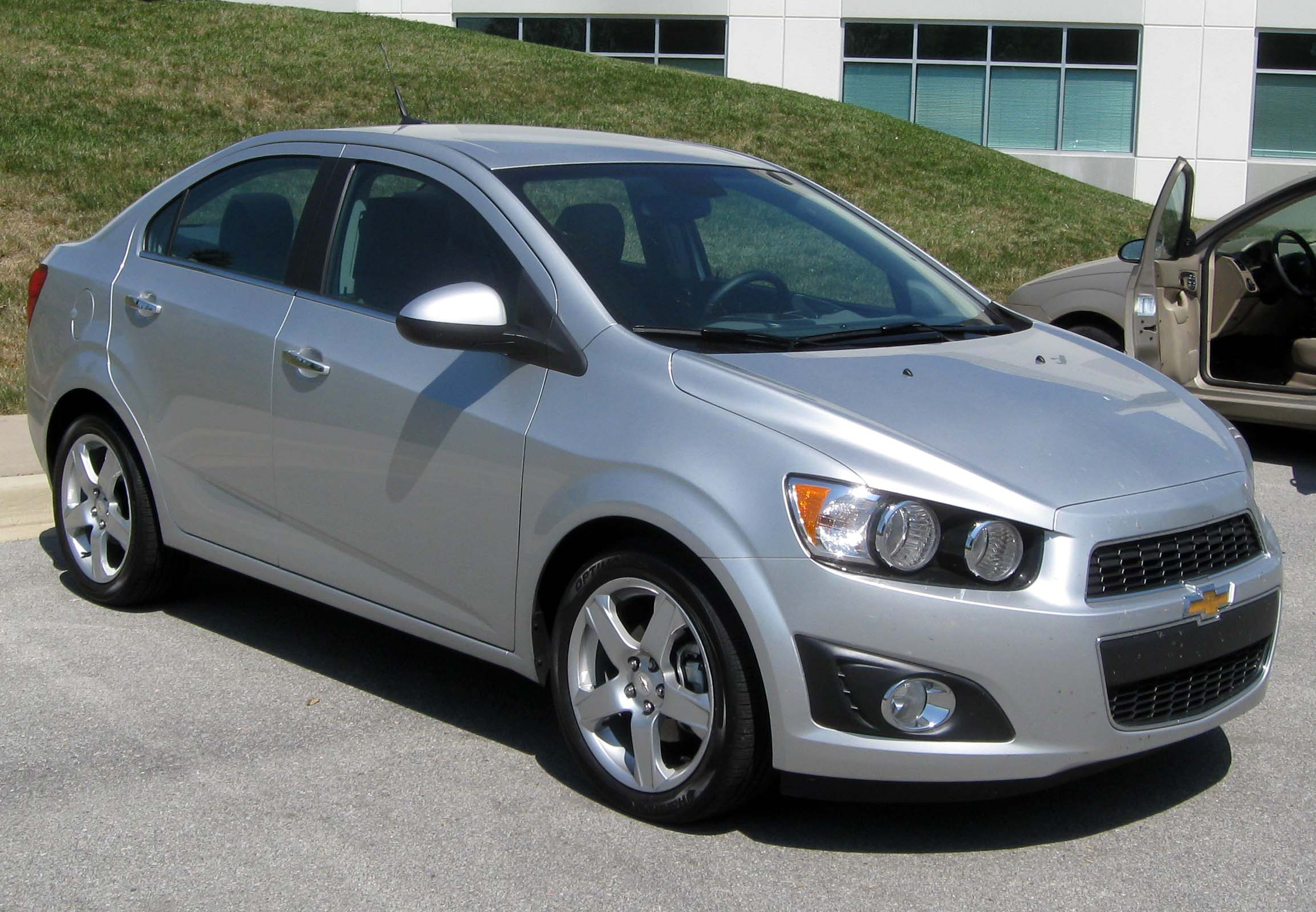 2012 Chevrolet Sonic photographed in Upper Marlboro, Maryland, USA.